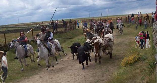 Desenjaule del Viernes de Corpus.